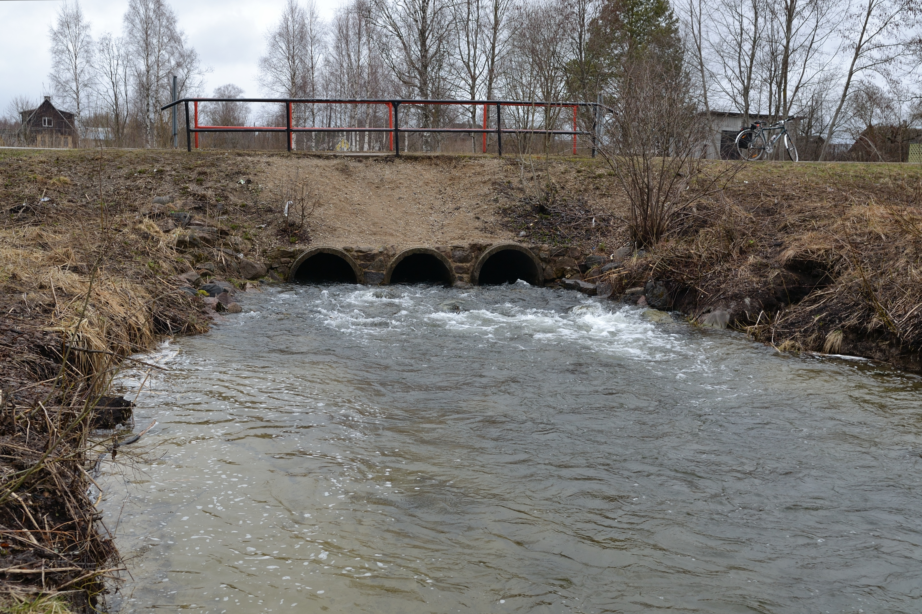 Põltsamaa river in Kiltsi